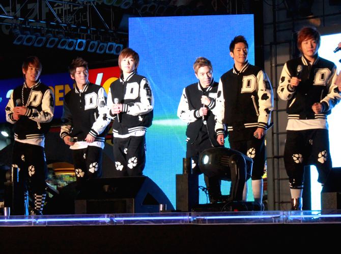 Dalmatian performing at the Toona Shopping Mall in Bucheon on December 17, 2010.